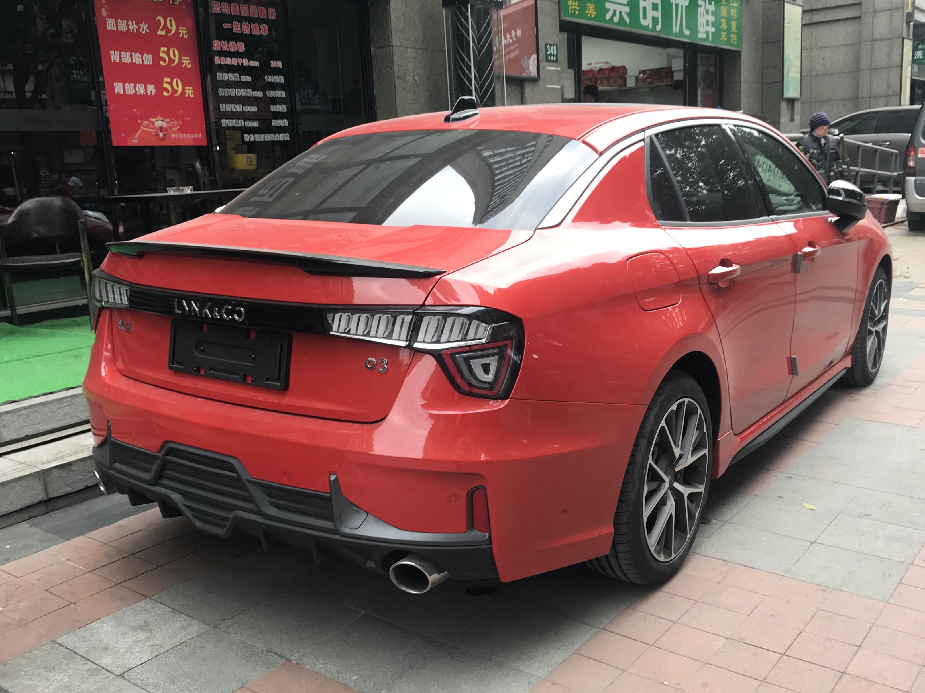 Lynk & Co 03 rear